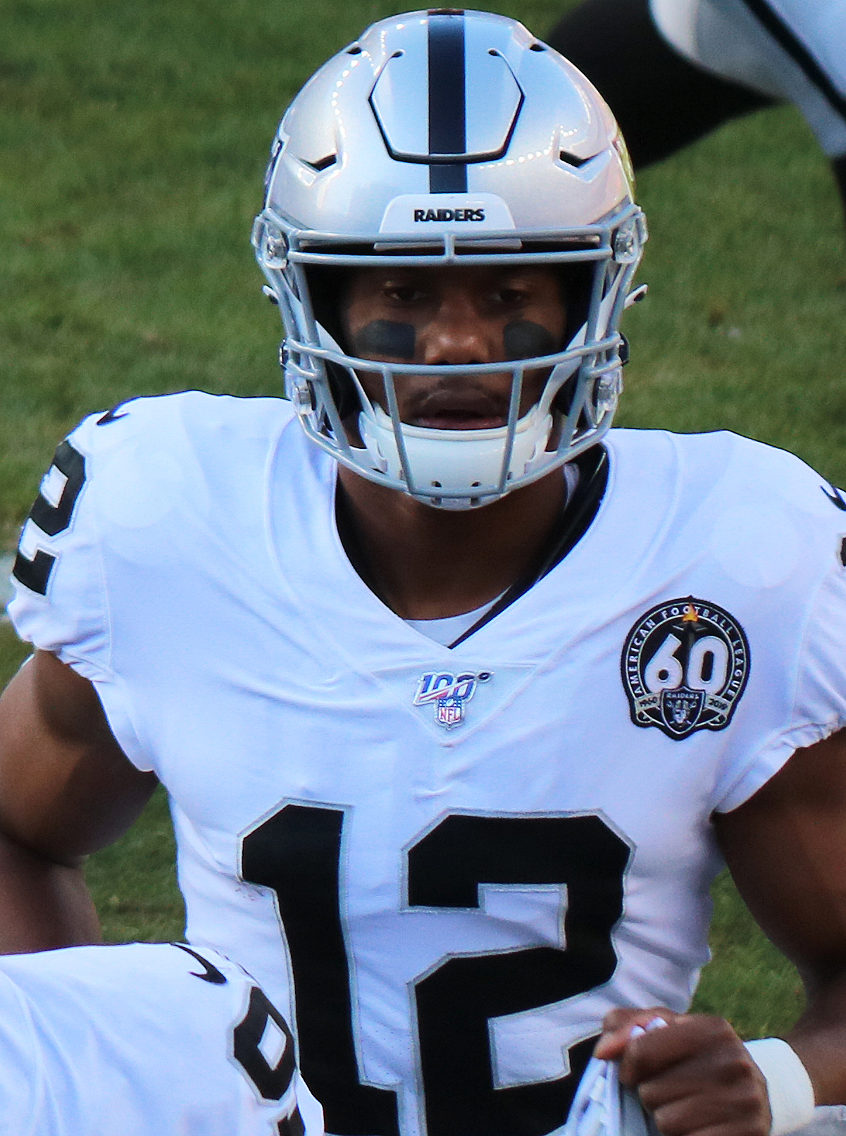 Zay Jones, a National Football League player.